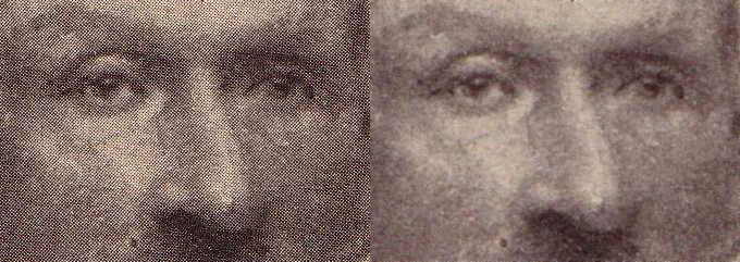 Gaussian filtering of raster newspaper scan